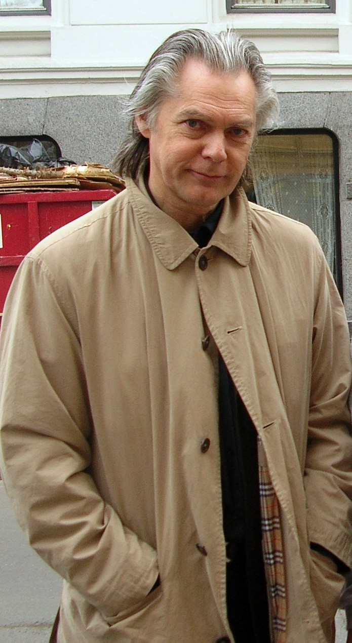 Jan Garbarek on the street in Oslo (Frogner)